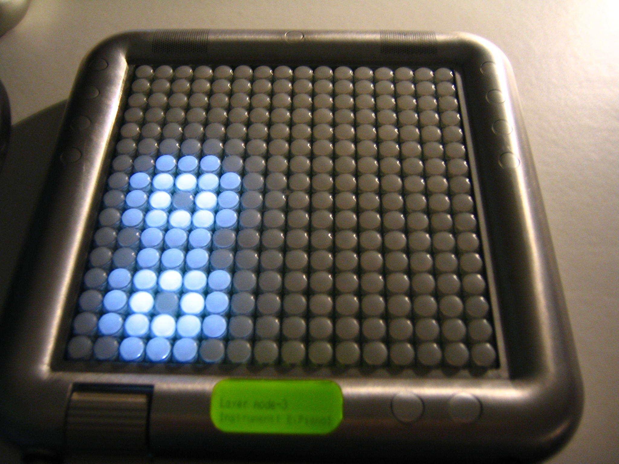 Tenori-on is an electronic musical instrument.